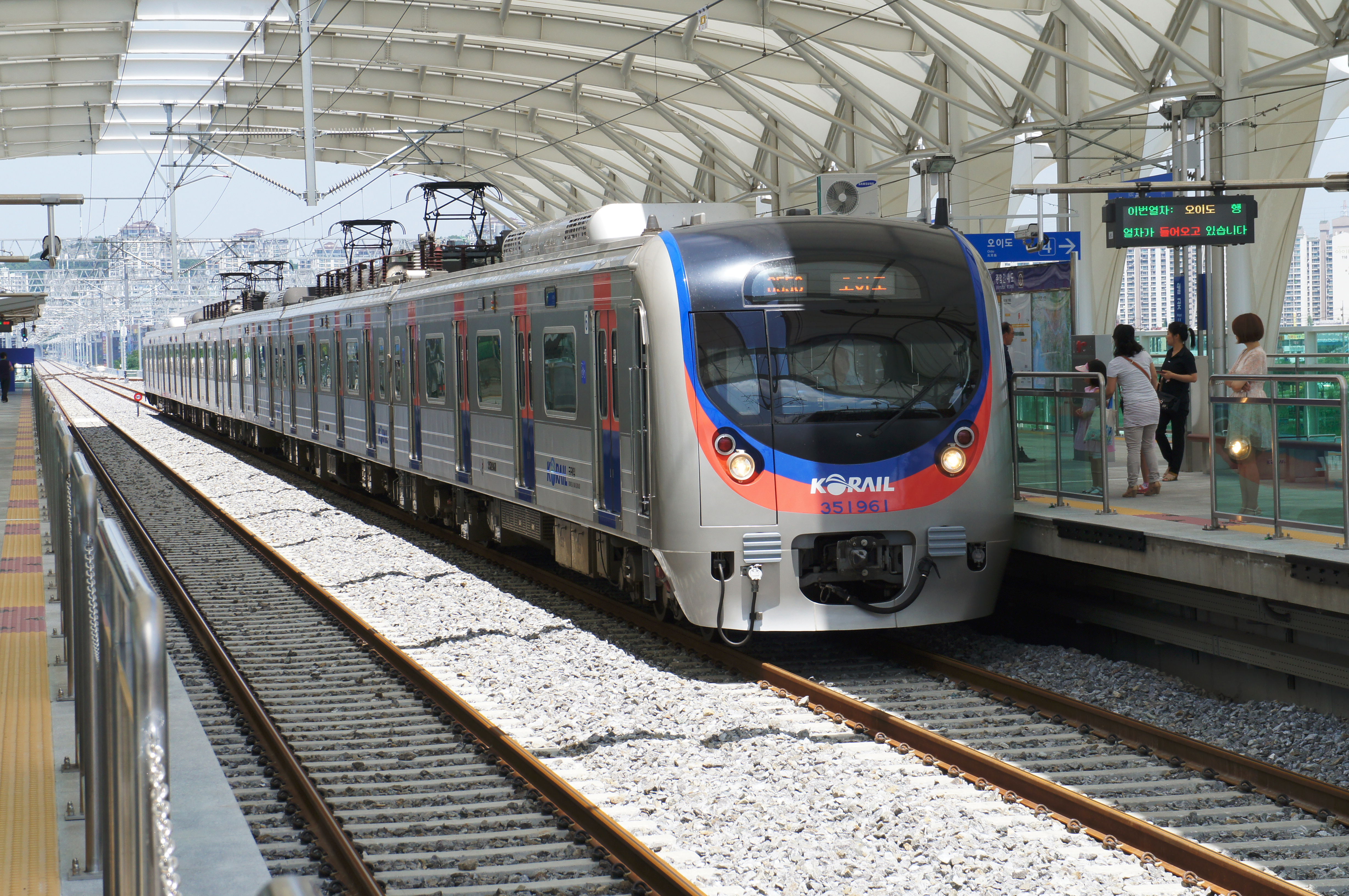 KORAIL 351000 series EMU